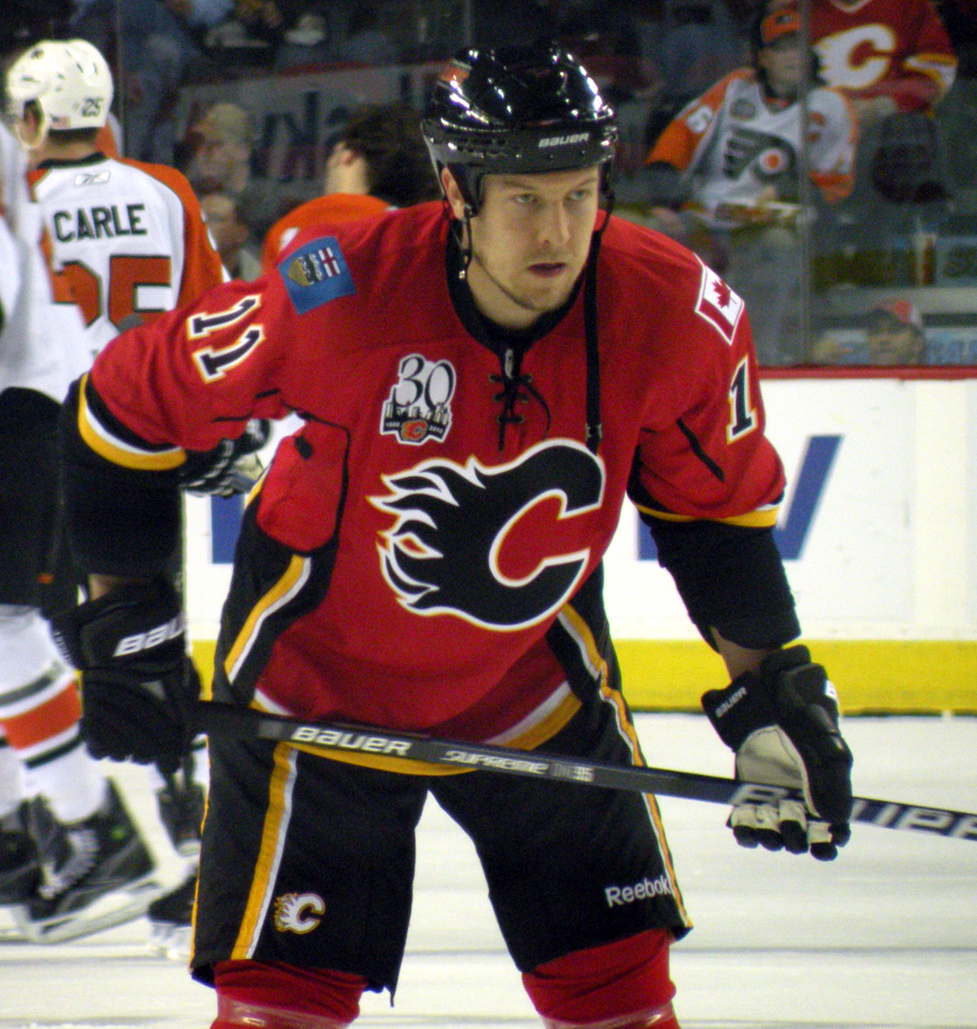 Calgary Flames forward Niklas Hagman prior to a National Hockey League game against the Philadelphia Flyers.